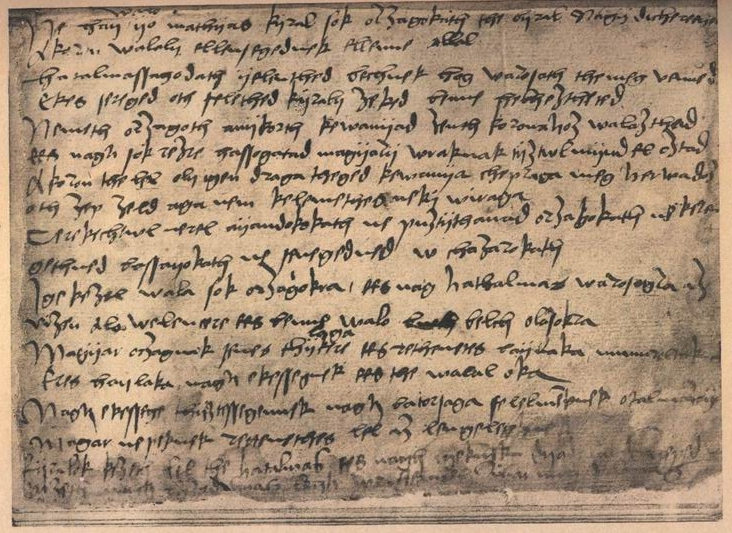 4th page of the Gyöngyösi-Codex, first quarter of the 16th century